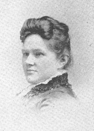 Photograph of Christine Terhune Herrick published in 1893. Taken from where it is identified as being in the public domain.